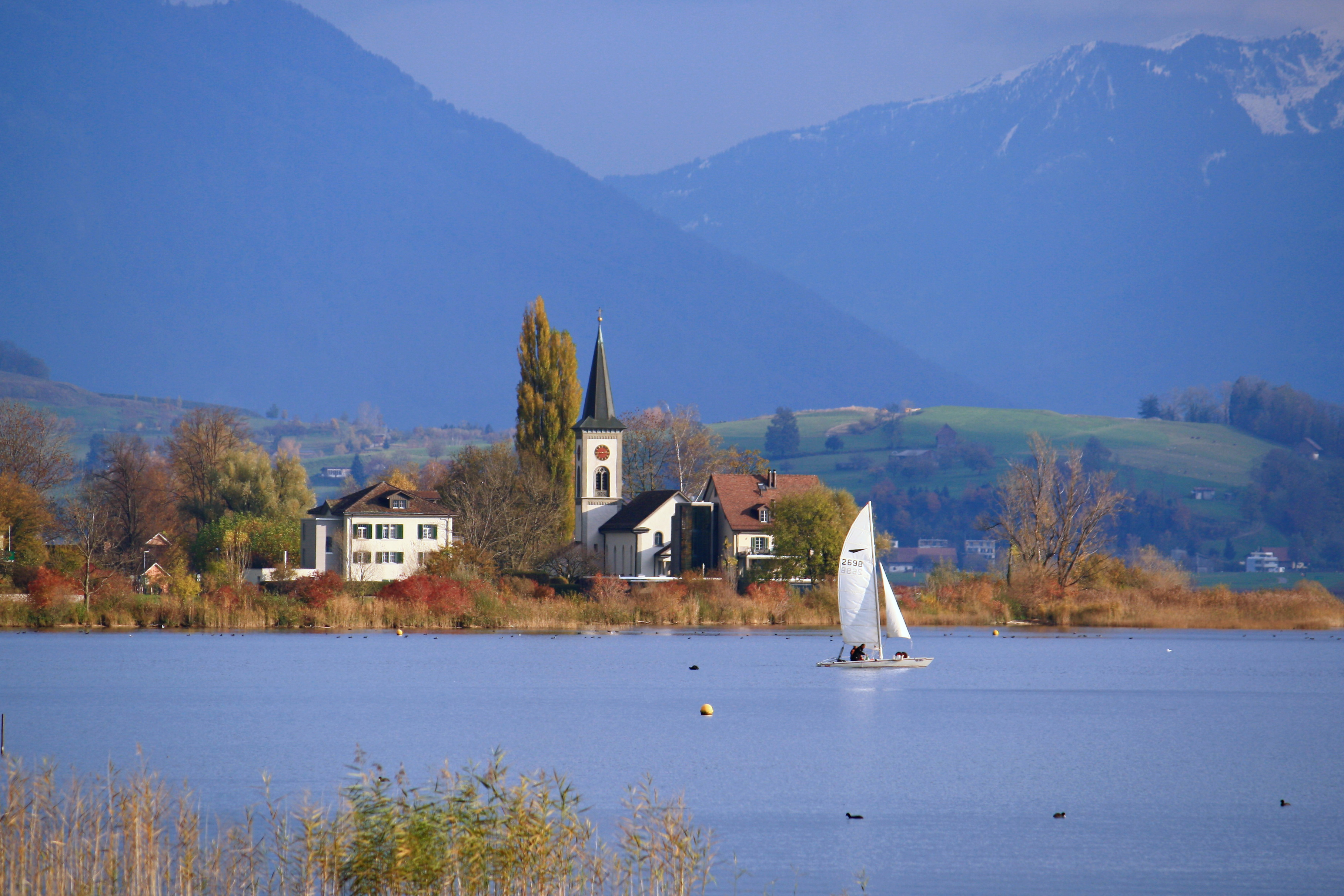 Obersee (upper Lake Zurich) and St. Martin Busskirch, as seen from Pilgersteg (Pilgrim's bridge) in Rapperswil (SG), Buechberg and Glarus Alps in the background.